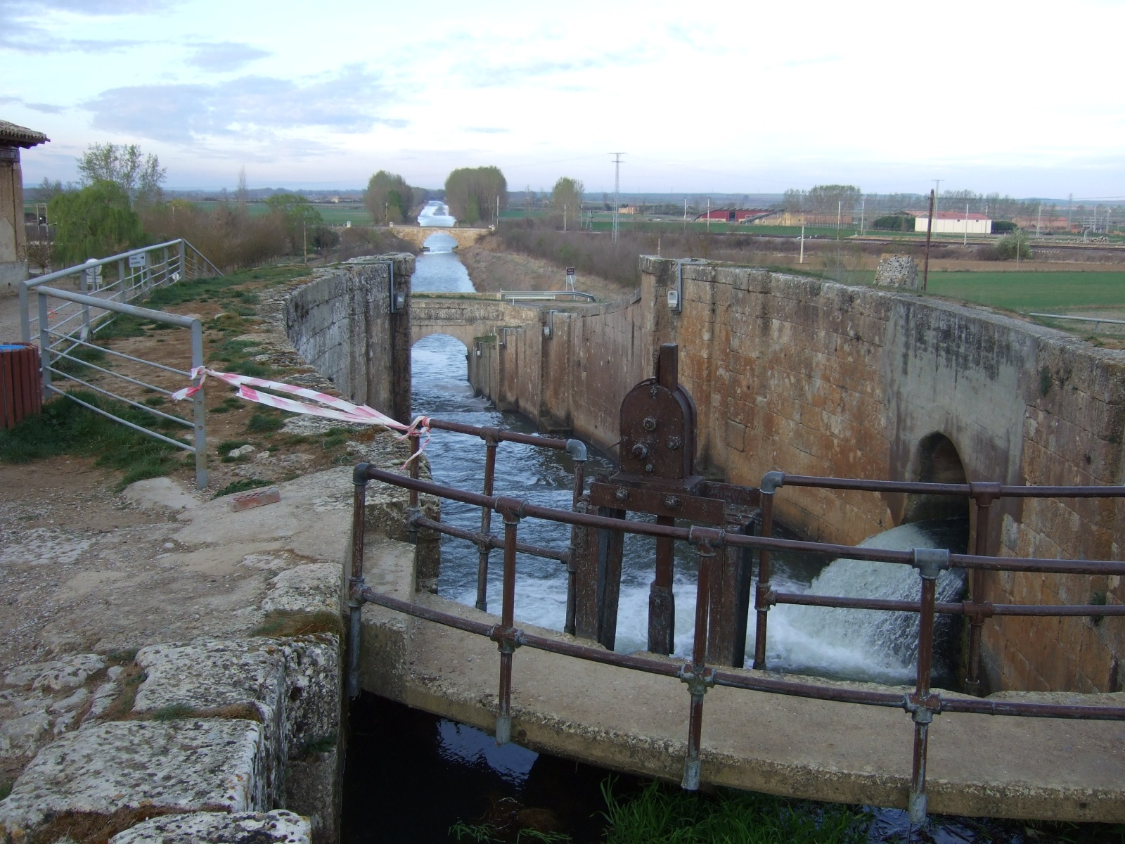 Canal De Castilla - Fromista